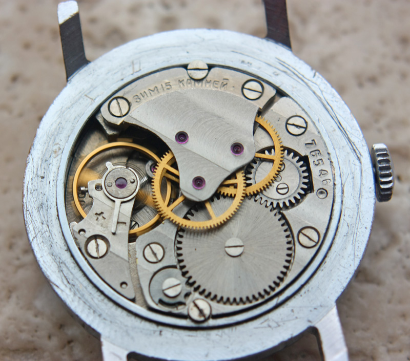 The mechanism of the Soviet watch ZiM